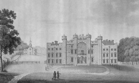 Hylton Castle and St Catherine's Chapel